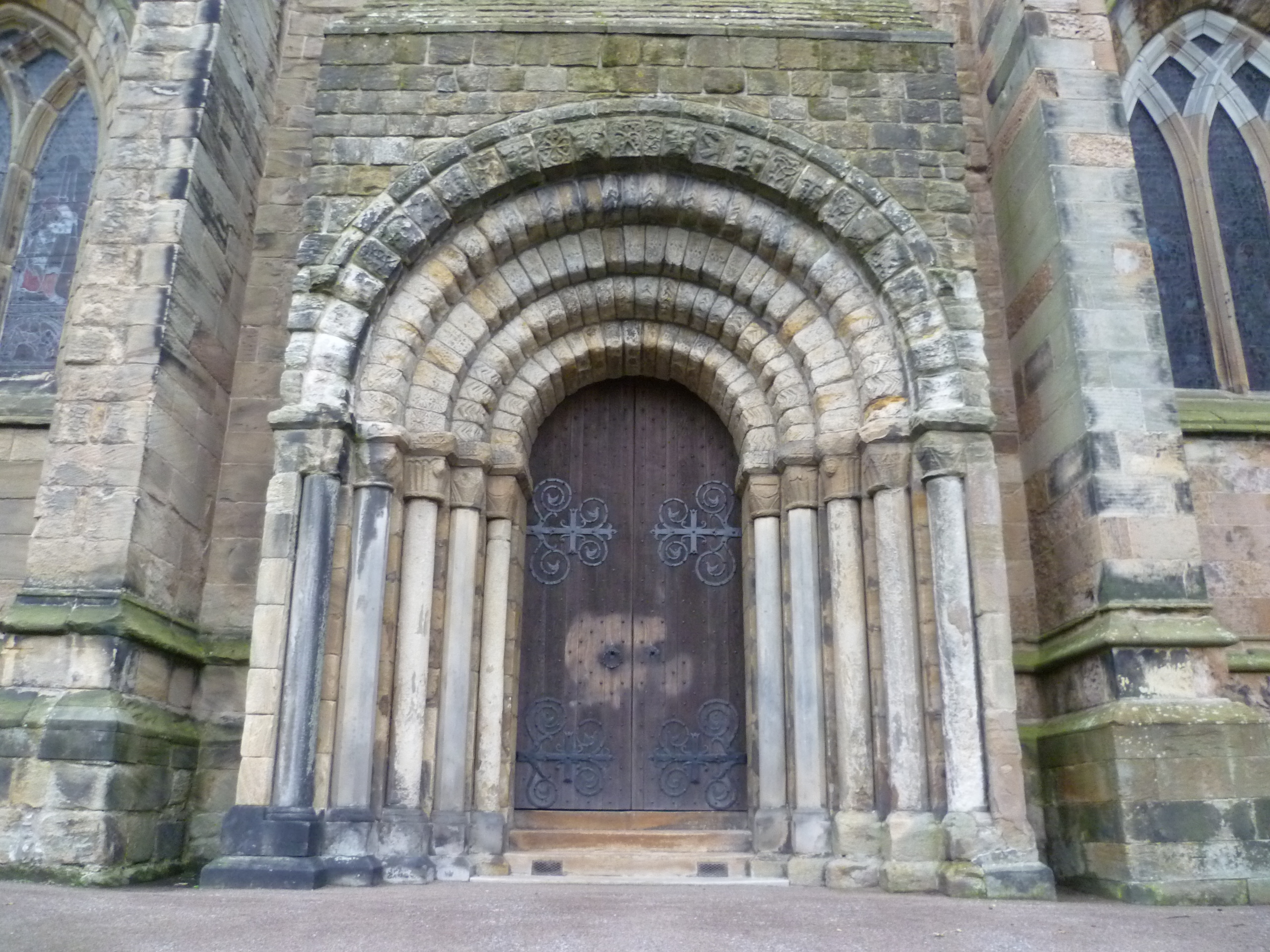 West door of Dunfermline Abbey, Fife